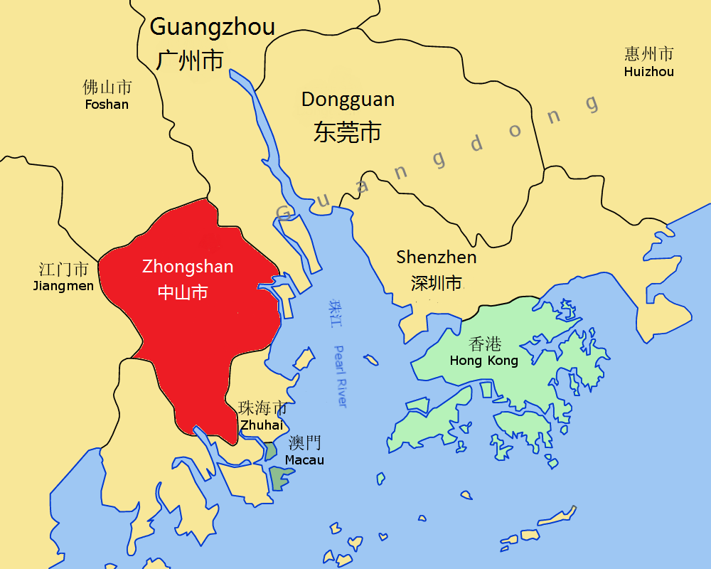 Modified version of File:Pearl River Delta Area.png, names enlarged and Zhongshan highlighted.